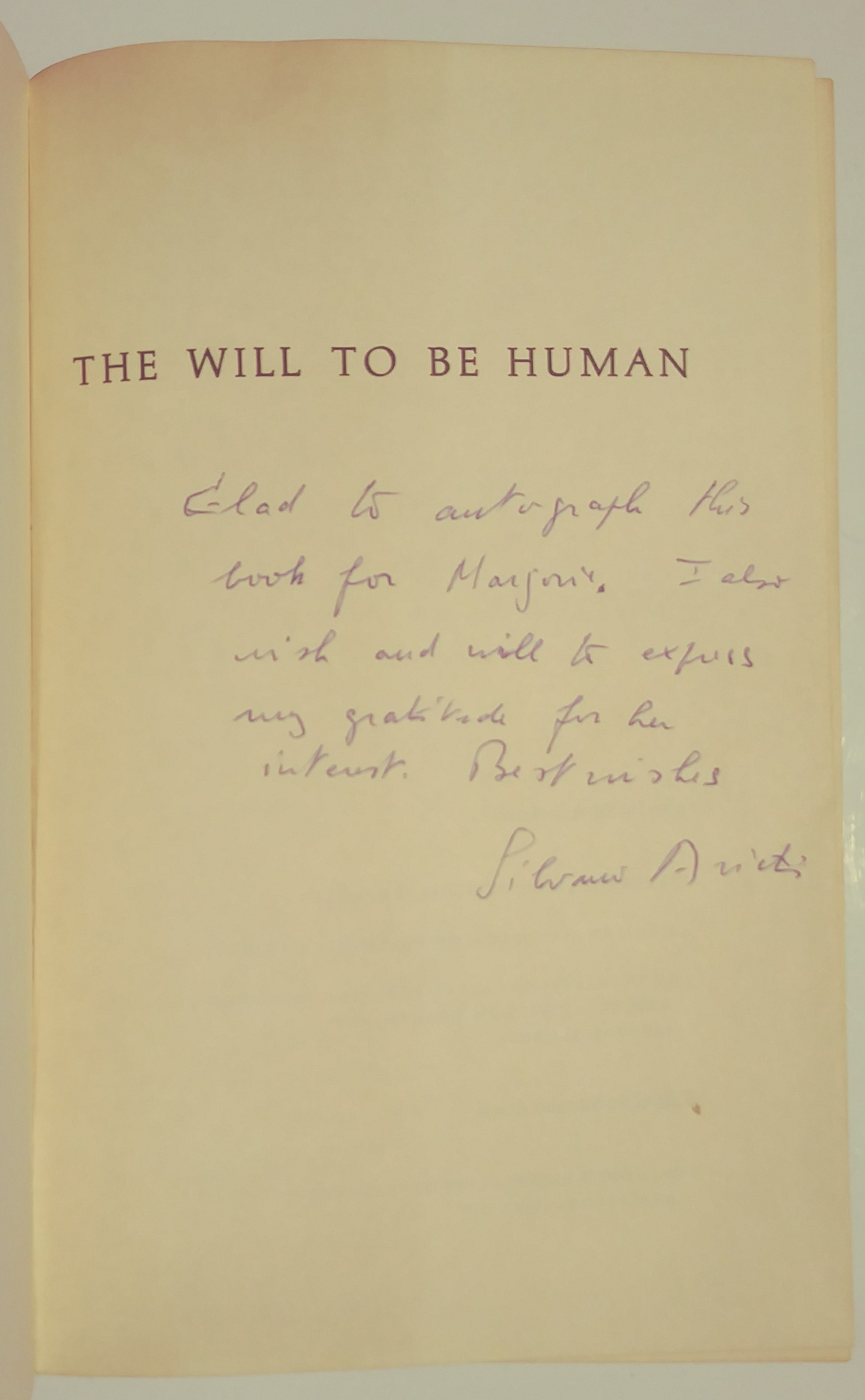 The Will to Be Human inscribed by the author, Silvano Arieti, to Marjorie Housepian Dobkin: "Glad to autograph this book for Marjorie. I also wish and will to express my gratitude for her interest. Best wishes Silvano Arieti"